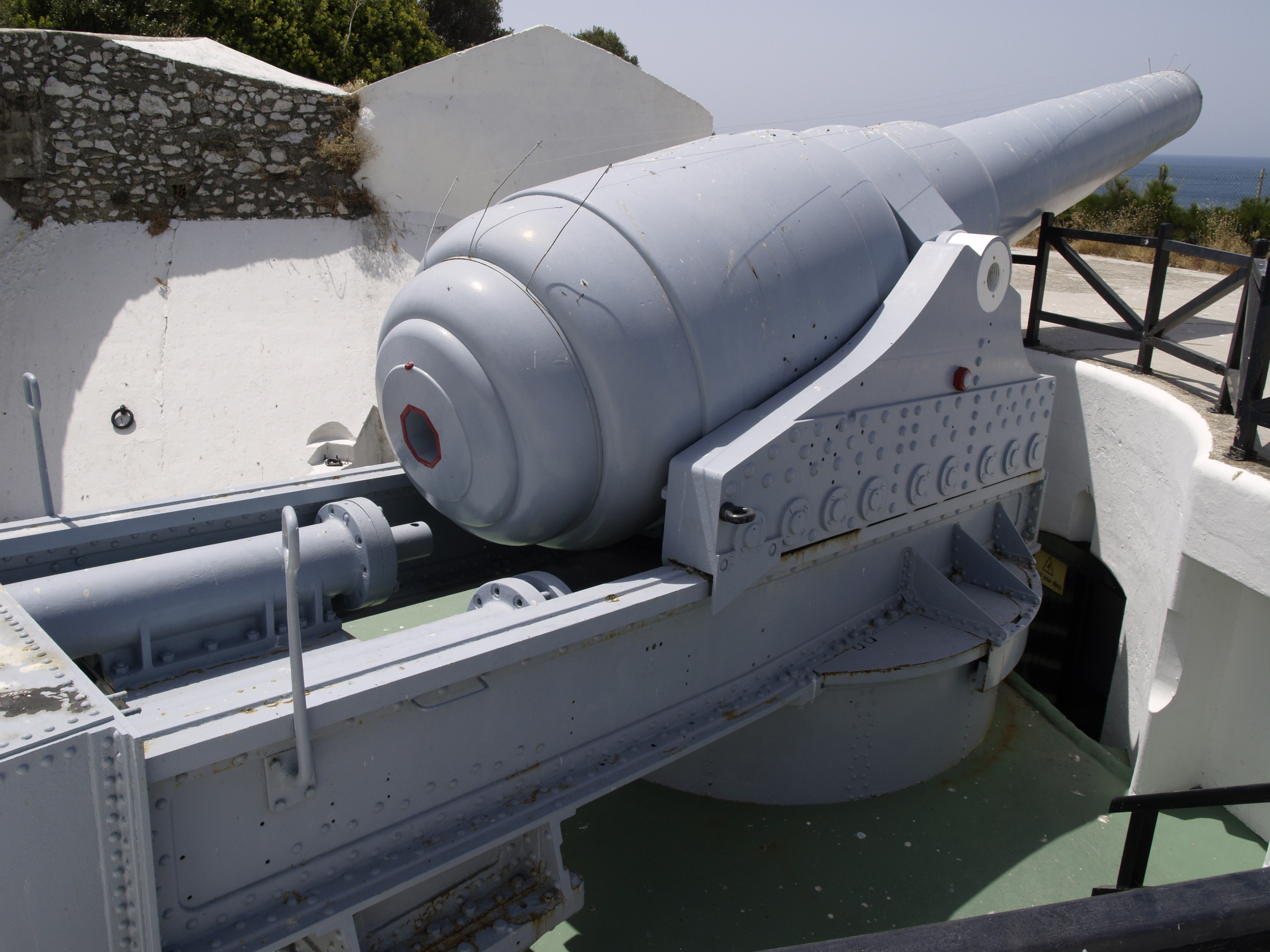 450-mm 100-ton gun at Gibraltar.